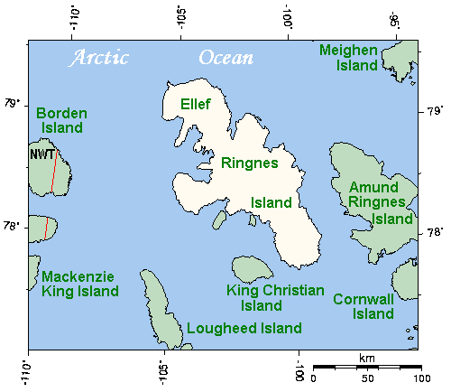 A map of Ellef Ringnes Island in Nunavut and surroundings. This map's source is here, with the uploader's modifications, and the GMT homepage says that the tools are released under the GNU General Public License.